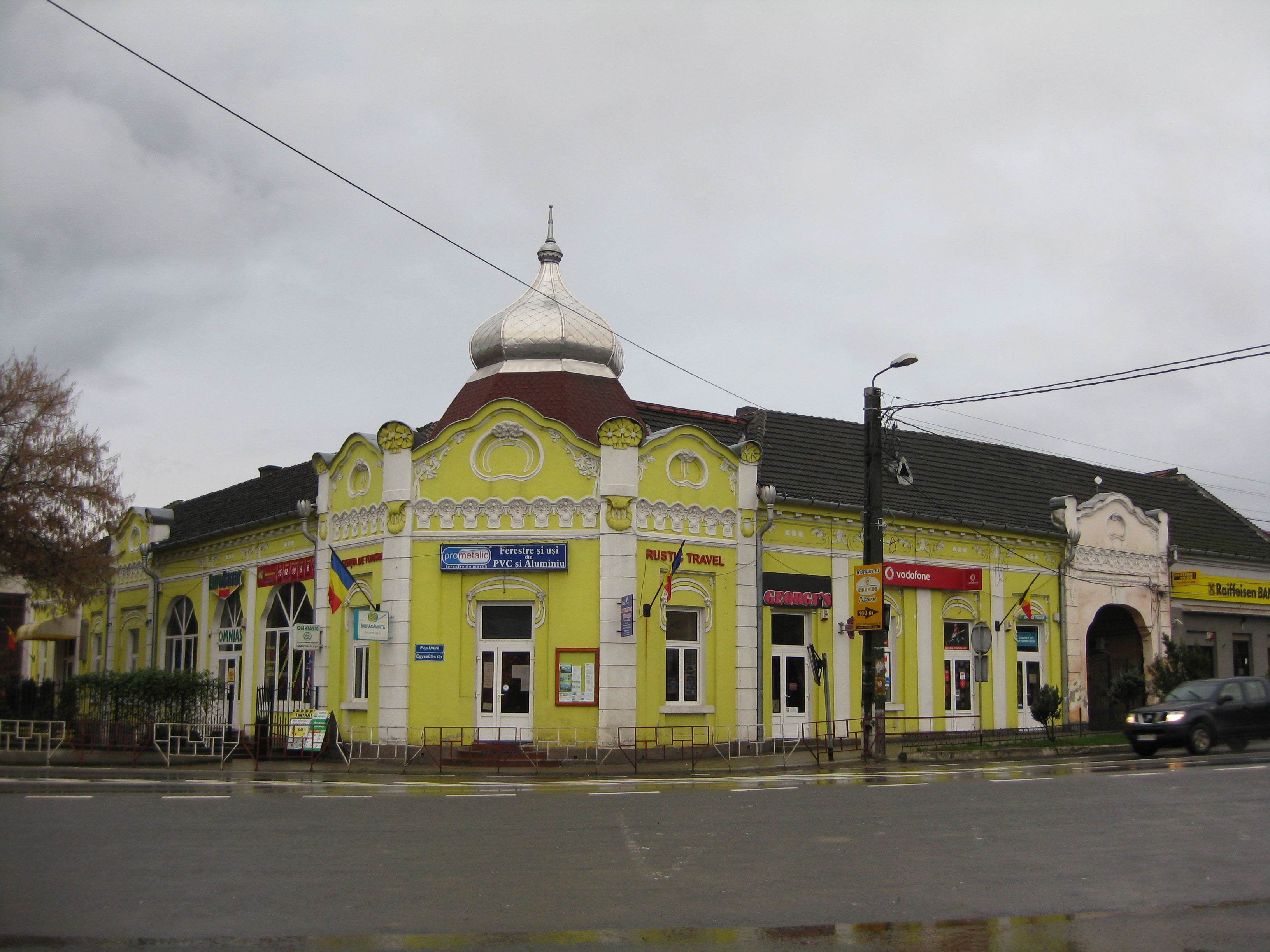 Alesd - The old Erzsebet Hotel